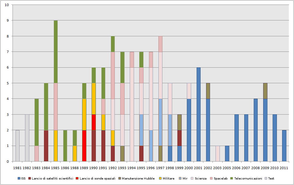 Number of mission of the space shuttle by type and year